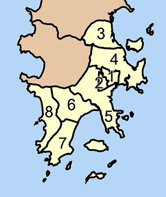 Map of Mueang Phuket district, Phuket province, Thailand, with the communes (tambon) numbered. Talat Yai (ตลาดใหญ่) Talat Nuea (ตลาดเหนือ) Ko Kaeo (เกาะแก้ว) Ratsada (รัษฎา) Wichit (วิชิต) Chalong (ฉลอง) Ra Wai (ราไวย์) Ka Ron (กะรน)